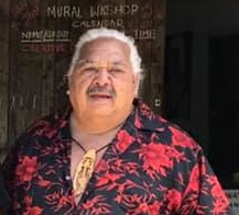 Cook islands Artist Mike Tavioni at his wood-carving workshop in October 2019